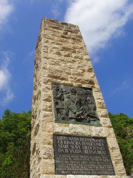 Monument in a tribute of Croatian national anthem